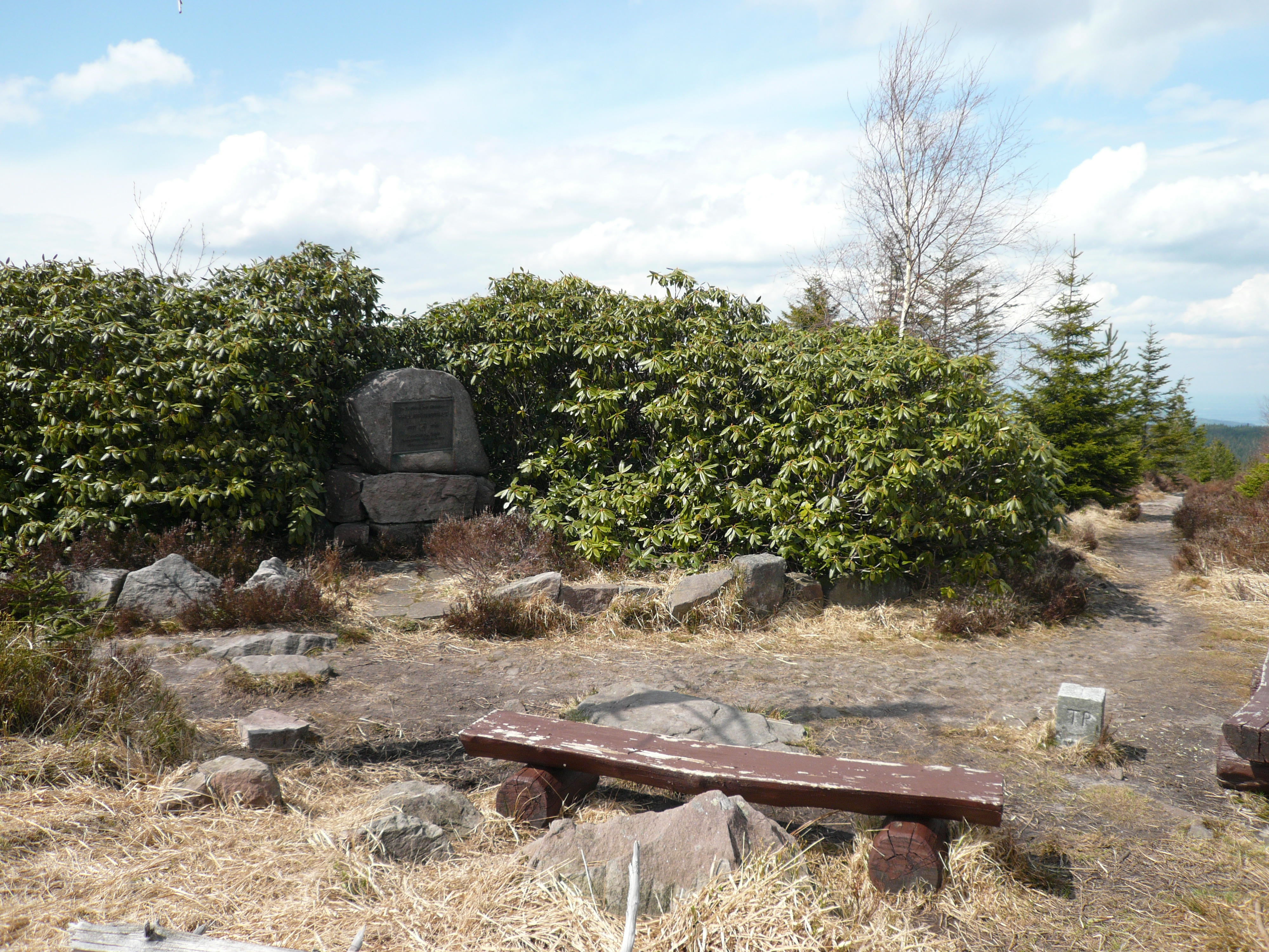 On the summit of Seekopf, a mountain in the Black Forest to the east of Badener Hoehe